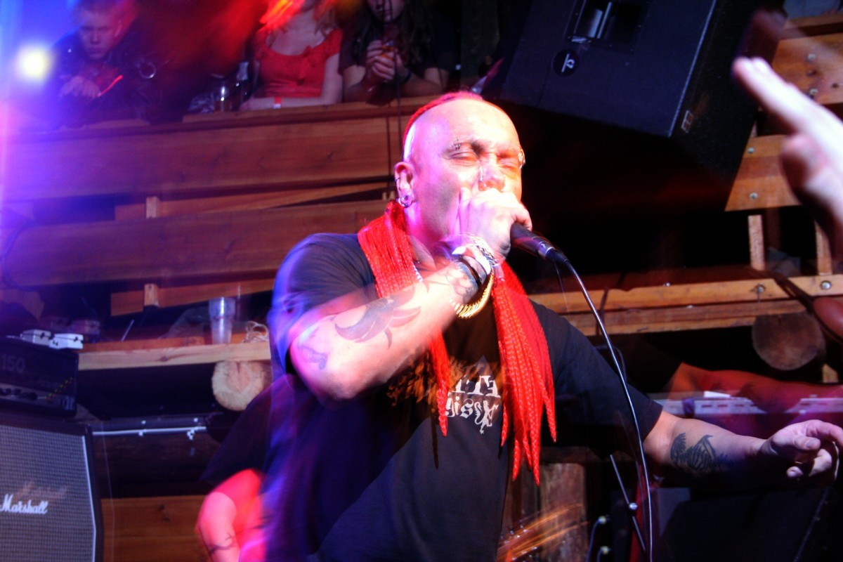 Wattie Buchan in concert with the Exploited.